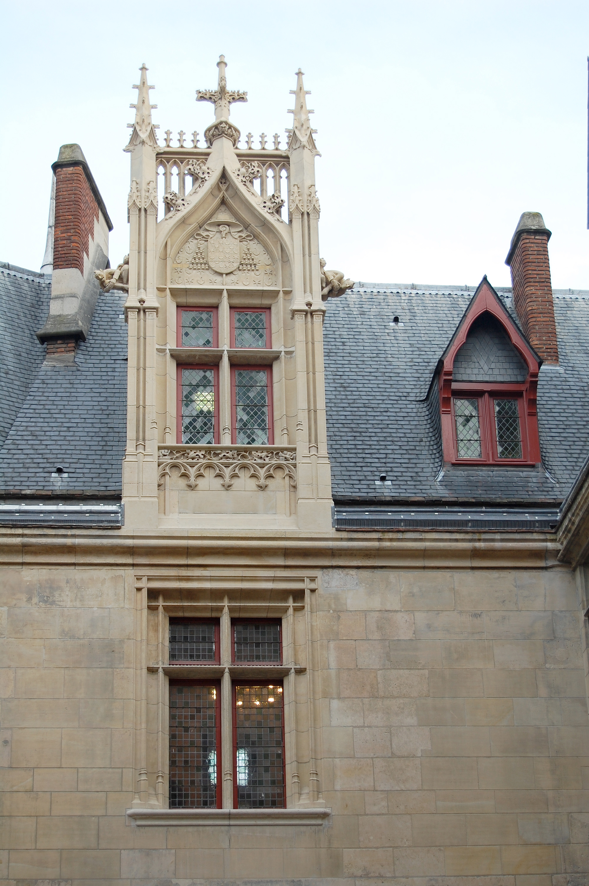 Hotel de Sens, Marais, Paris, France